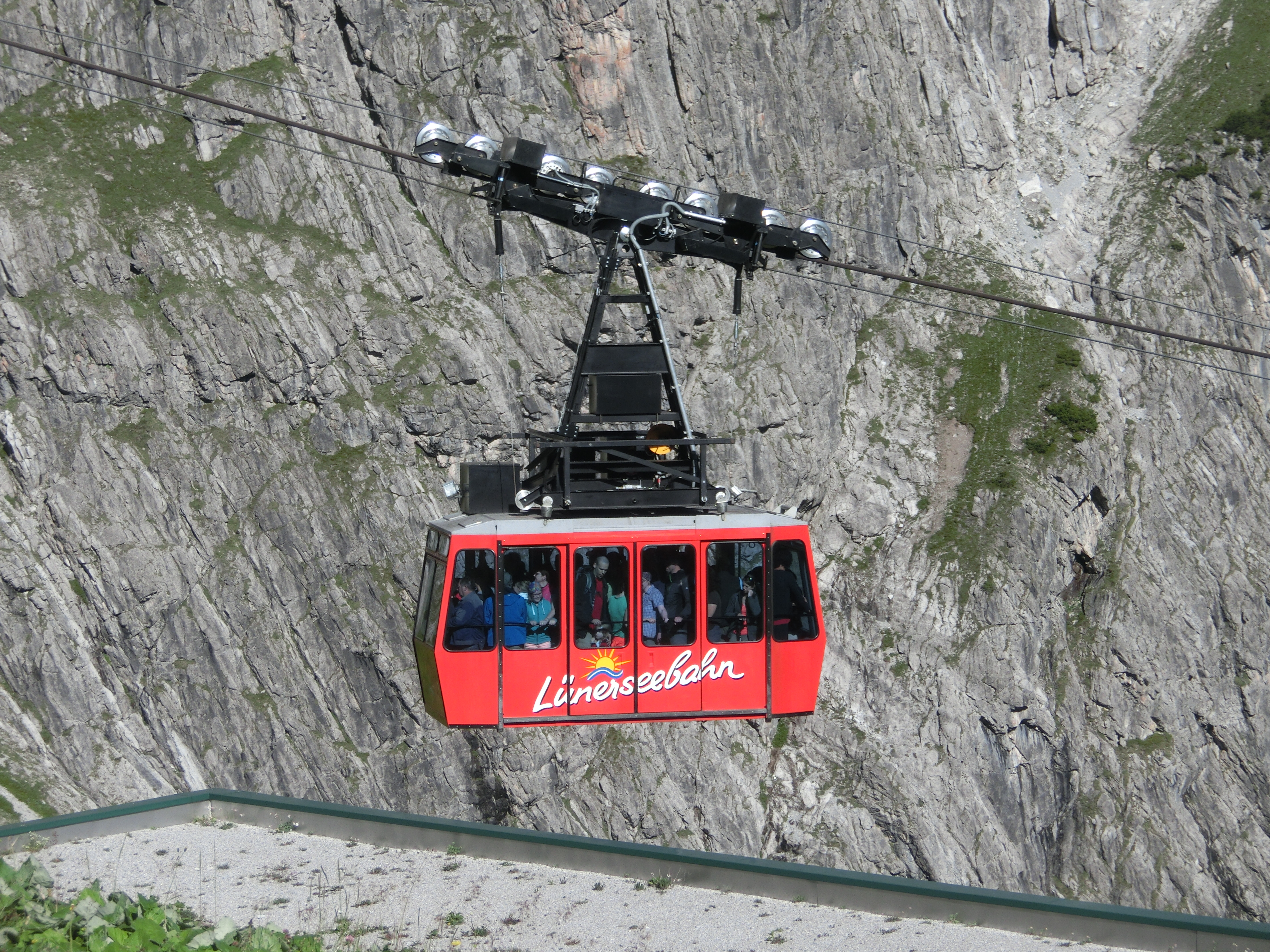 Austria - Vorarlberg - Brand/Vandans: cabin of 'Lünerseebahn' near the 'Douglasshütte'